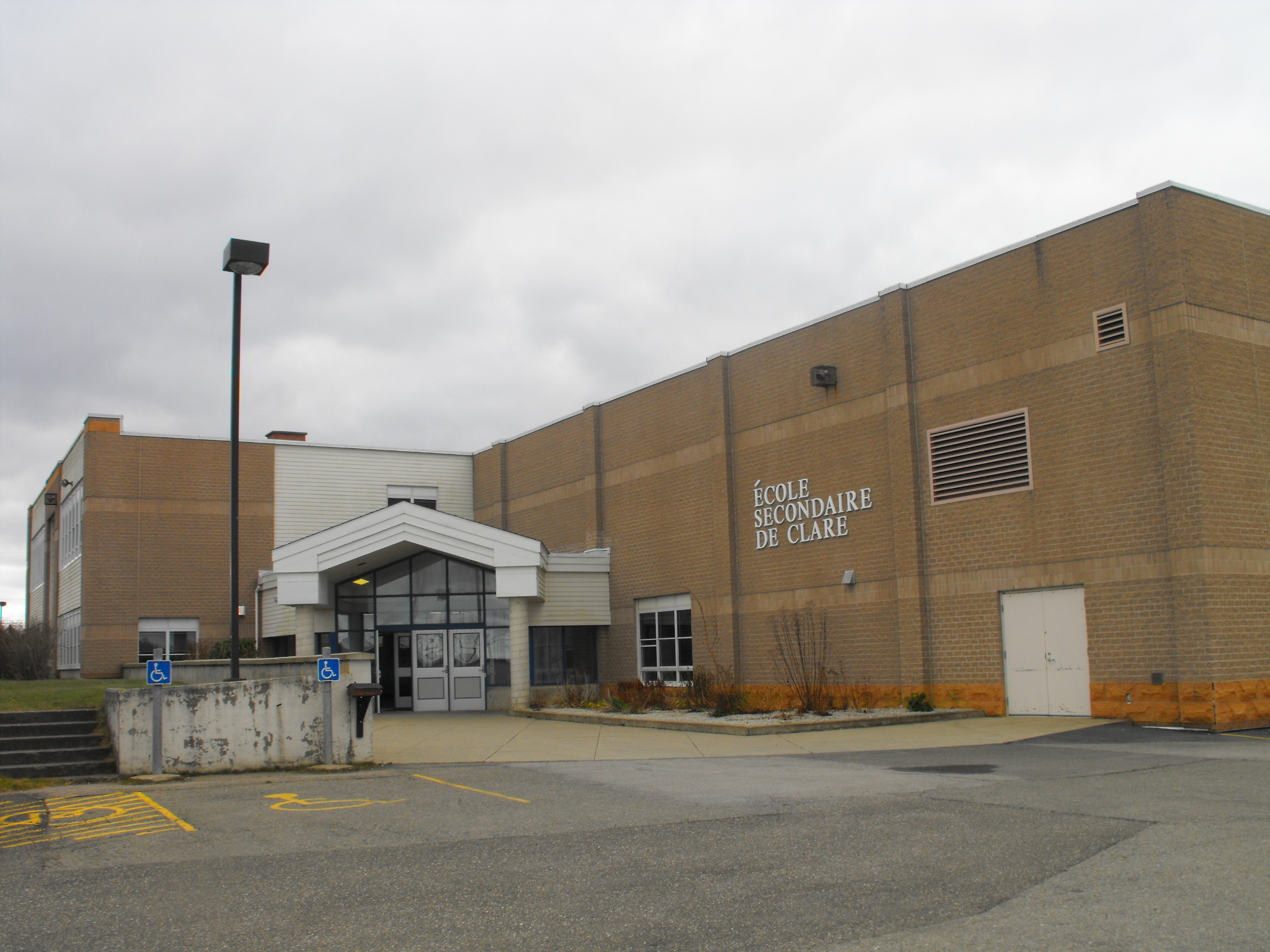 Ecole Secondaire de Clare 2012, Digby County, NS